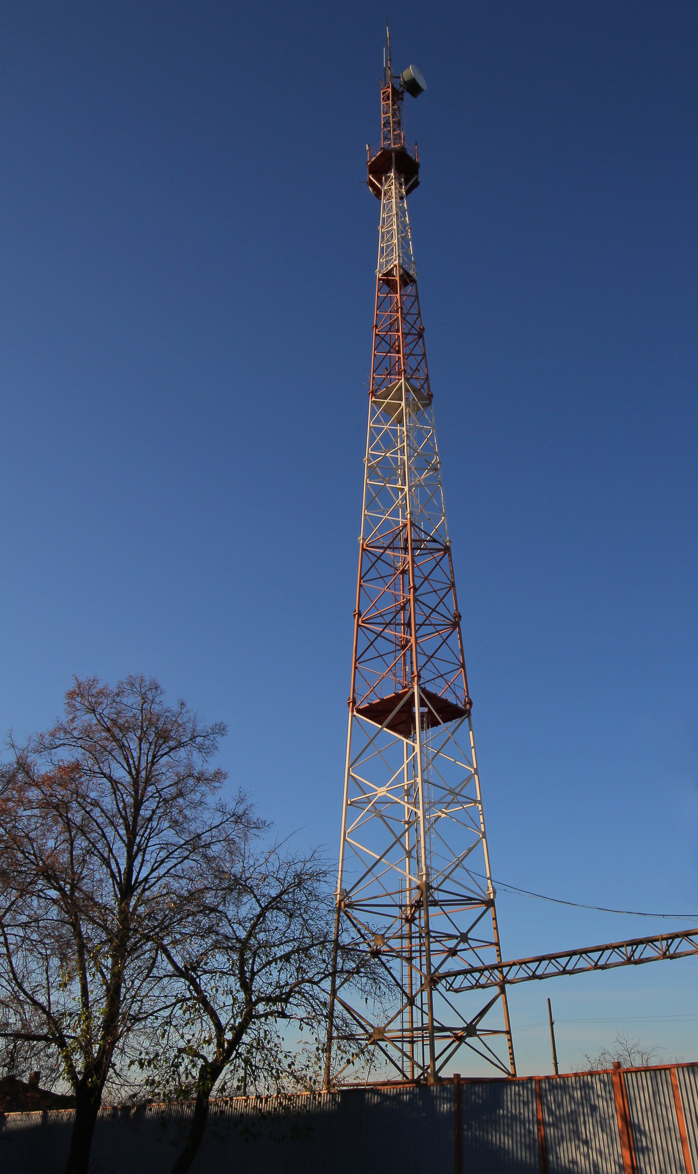 Kashira town, Moscow Oblast, Russia: Transmitter mast near Sovetskaya Street